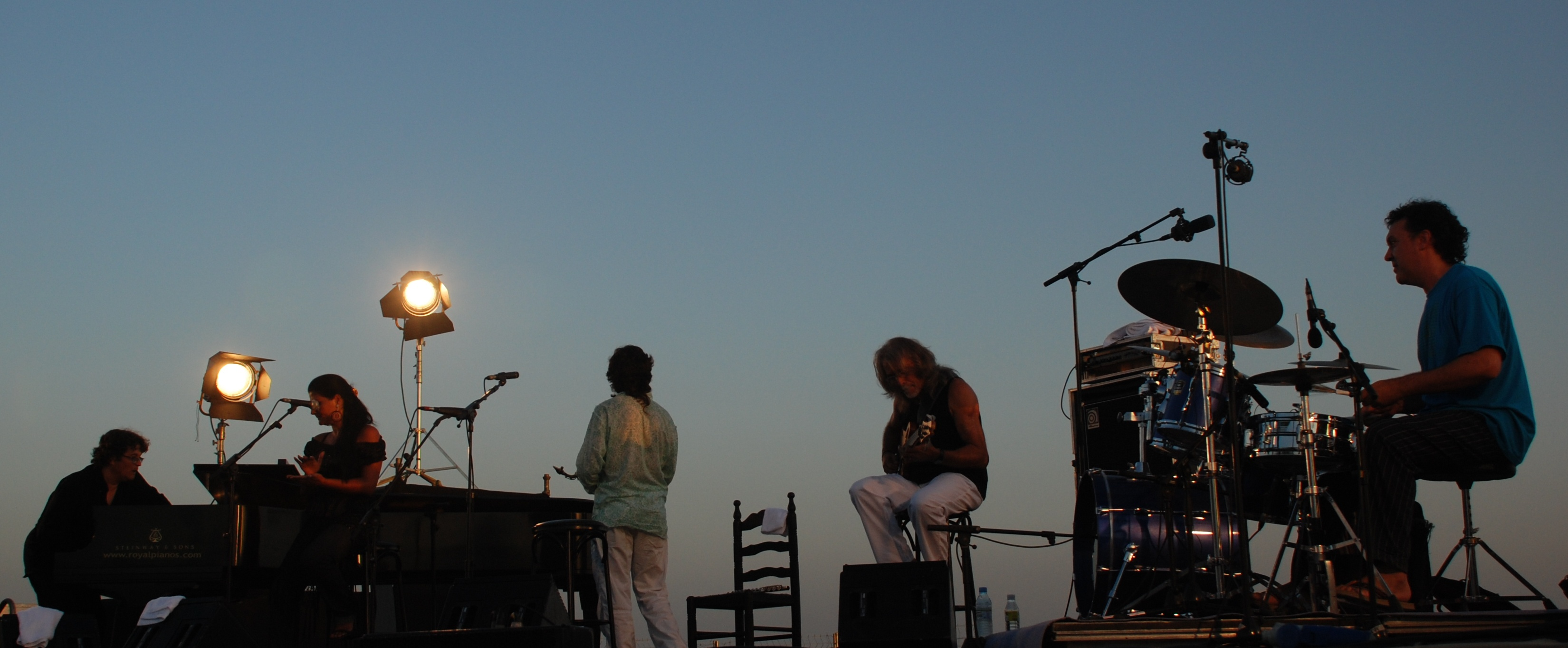 Chano Domínguez, Jorge Pardo, Carles Benavent, Tino di Geraldo, Chonchi at El Palo beach in Málaga, Spain, on 29 August 2007.